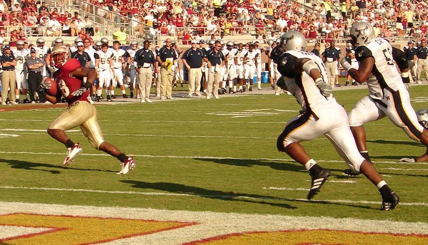 Lorenzo Booker touchdown for Florida State against Rice